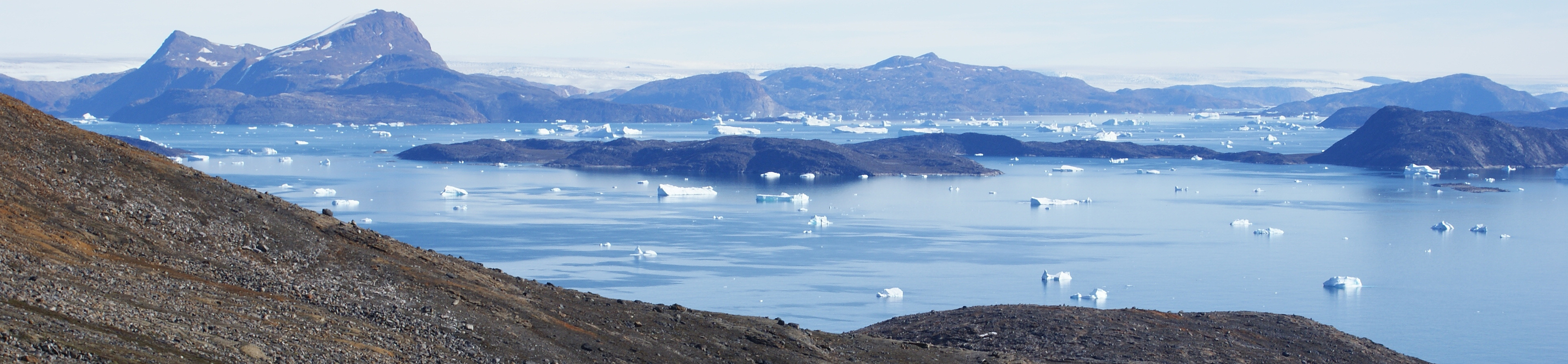 Nuussuup Kangia fjord, an inlet of Inussulik Bay, Upernavik Archipelago, Greenland. Anoritooq mountain/nunataq on the left side, last plane.